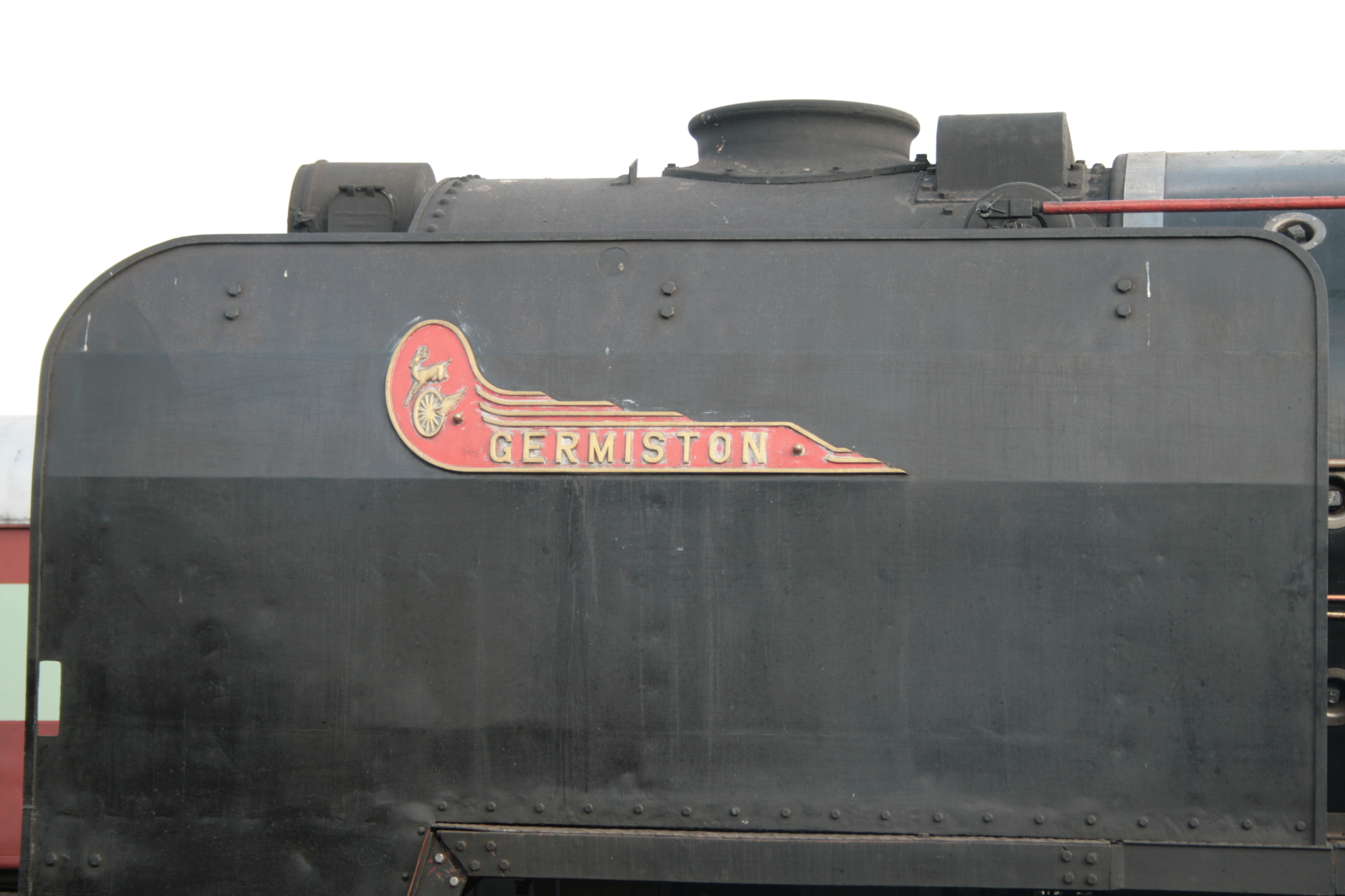 SAR Class 15F No.3046 "Germiston" at Reefsteamers depo in Germiston being prepared for a run to Magaliesburg